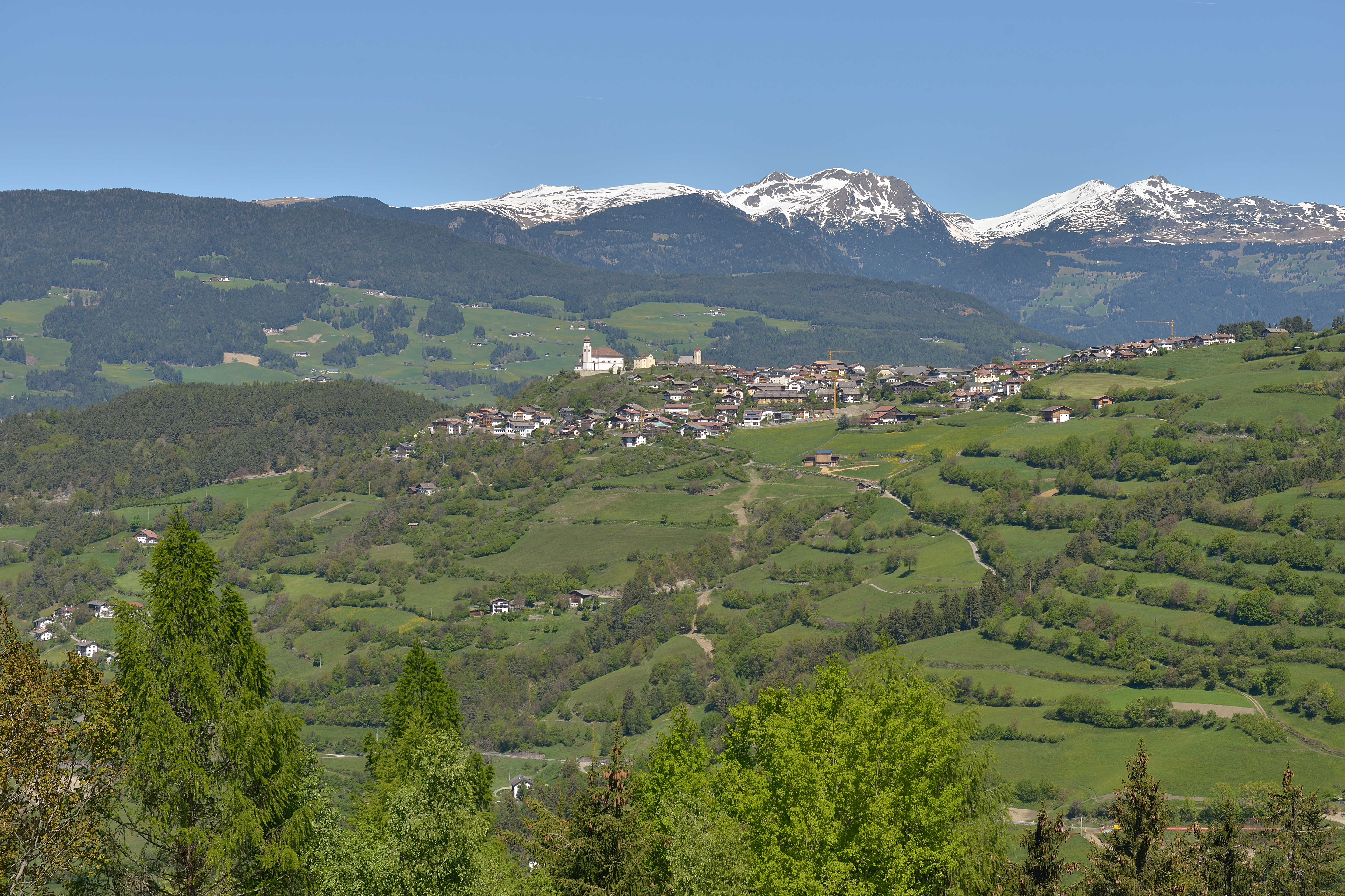 The alpine village Lajen in South Tyrol